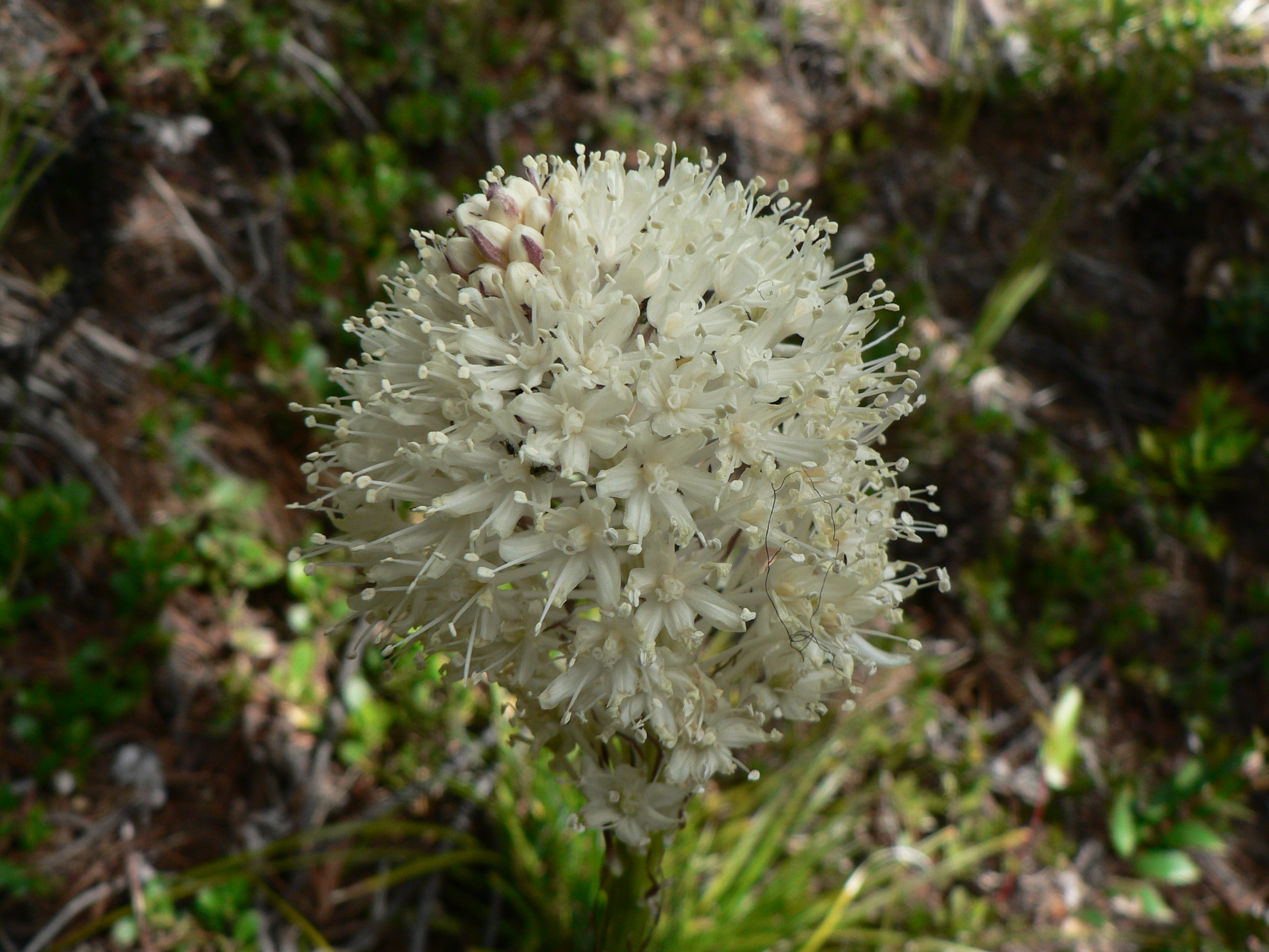 Common Beargrass, Western Turkeybeard